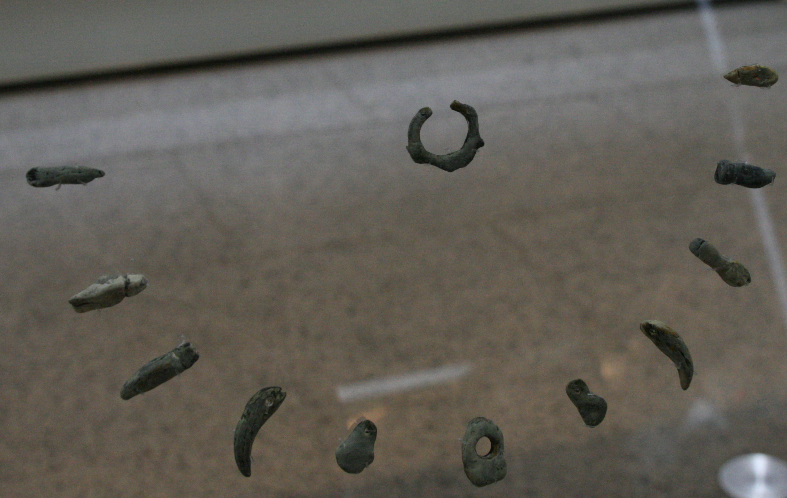 Replica of ornaments made of bone and fox teeth. Middle-Upper Paleolithic Châtelperronian Homo neanderthalensis 34,000 years ago Grotte du Renne, Arcy-sur-Cure (France)